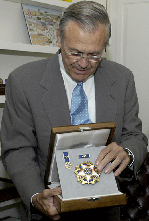 Donald Rumsfeld displays his Presidential Medal of Freedom With Distinction